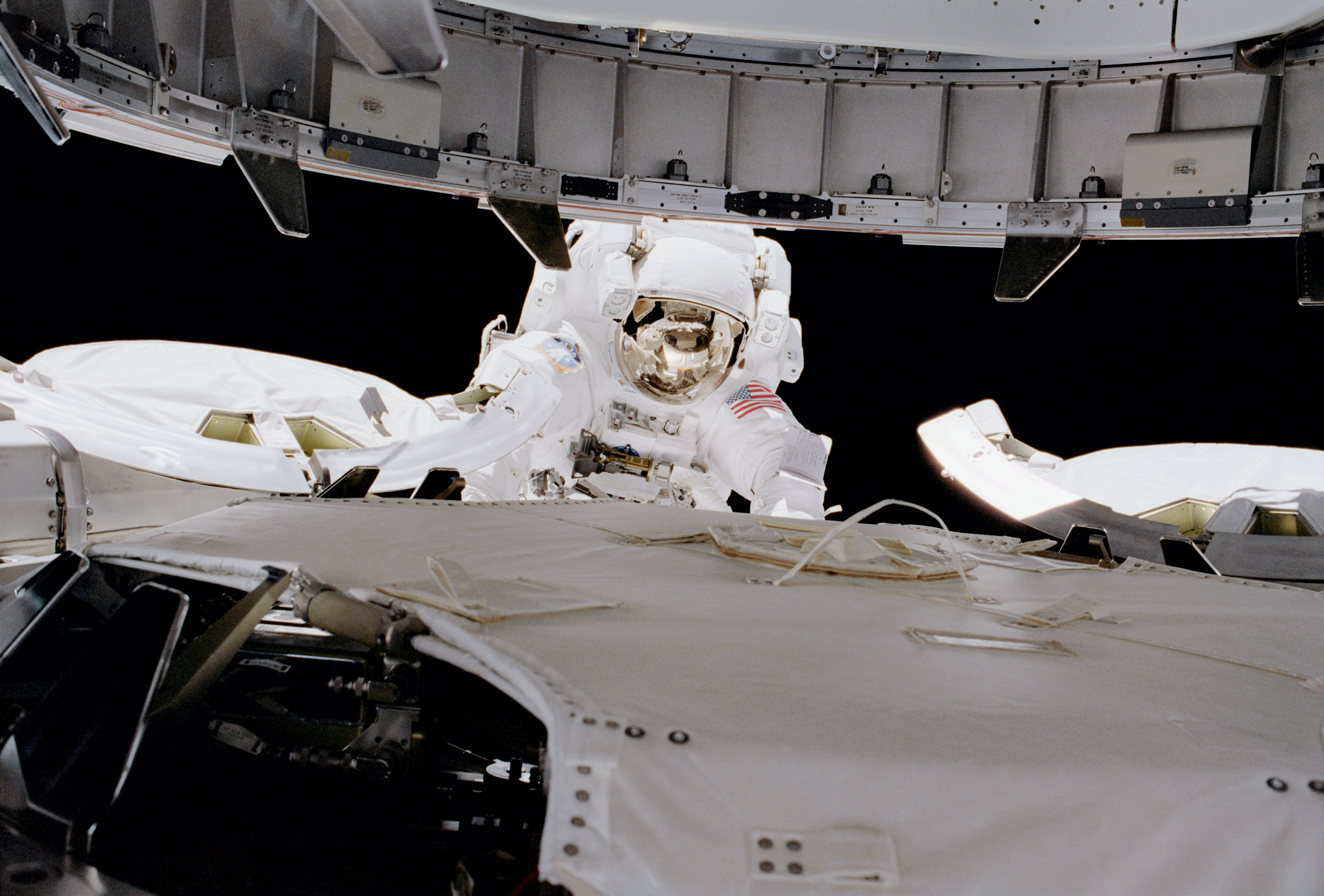 Converted from the TIFF original at the source URL. Caption and date are from a (lower quality) version The National Archives.